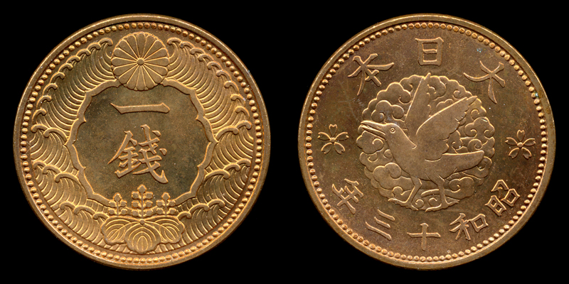 1sen-brass-S13